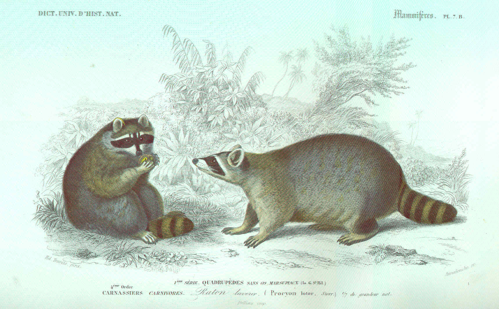 Procyon lotor Subject: Procyon, Raccoons Tag: Wildlife